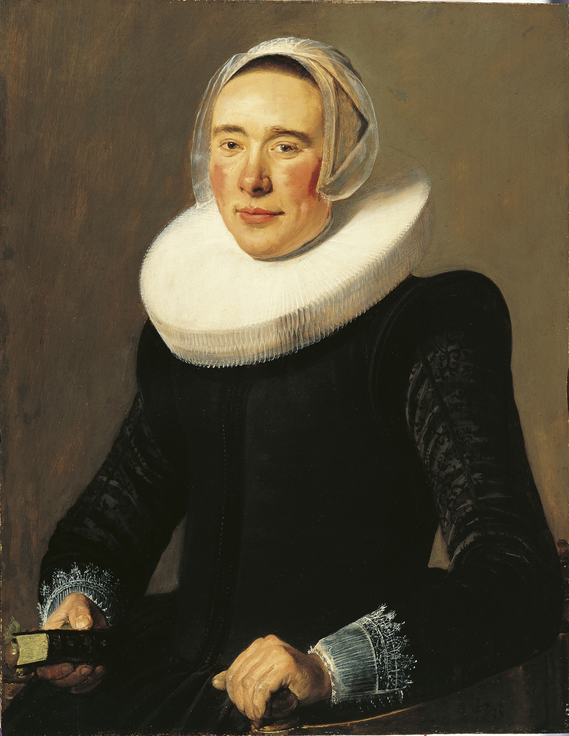 Portrait of a woman in millstone collar and winged diadem cap